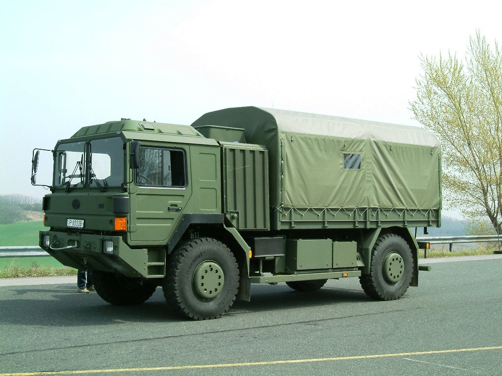 Type Rába H14 Hungarian military vehicle